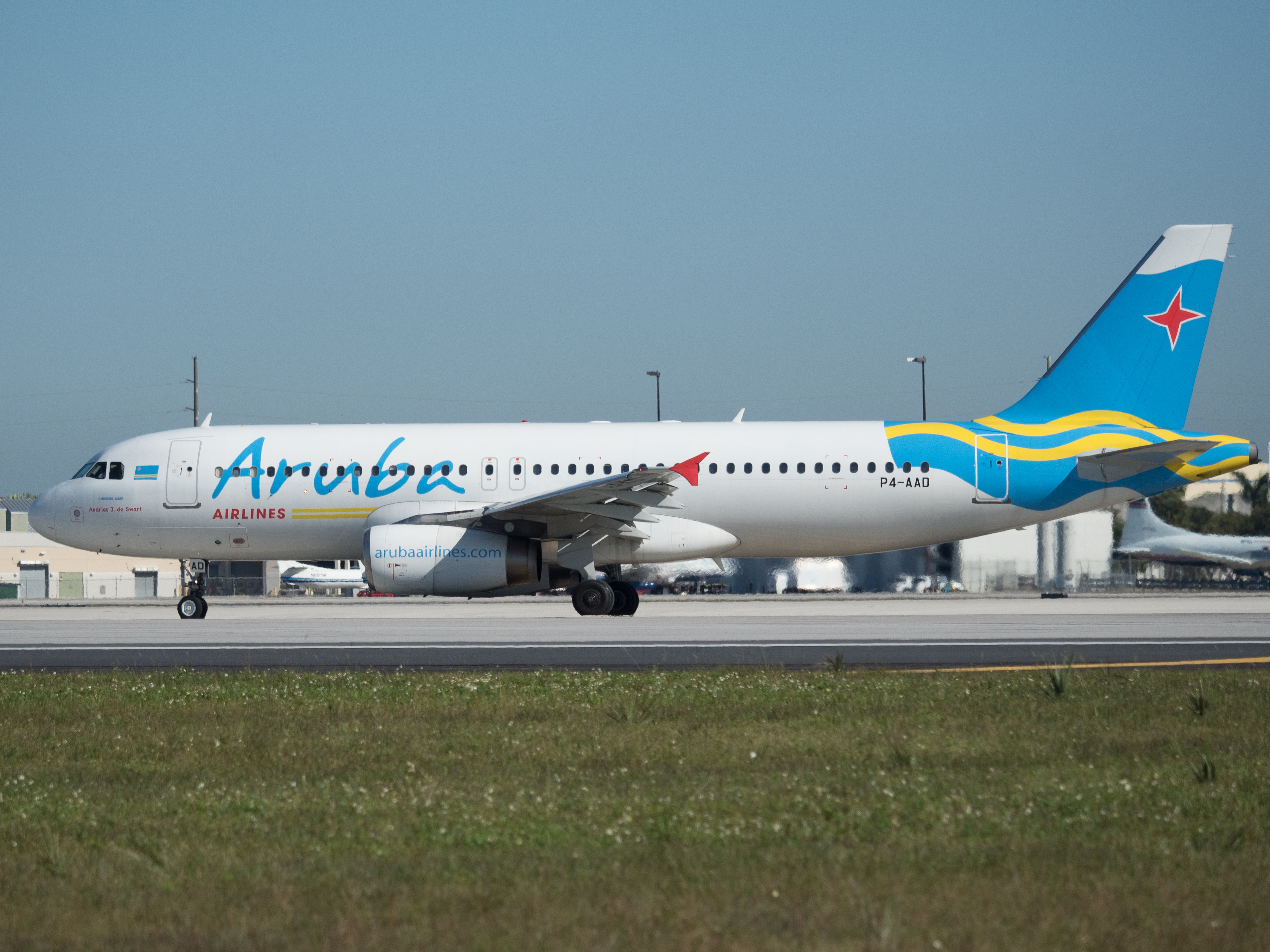 Aruba Airlines Airbus A320 at Miami International Airport